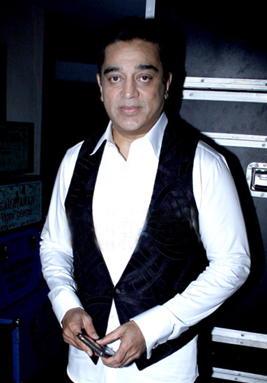 Tamil actor Kamal Haasan at the 61st Filmfare Awards South, 2014